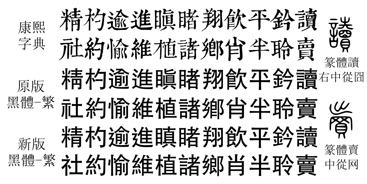 A comparison of the two versions of the Heiti TC font with the forms of characters in traditional printing typefaces as exemplified by the Kangxi Dictionary. The original Heiti TC follows the centuries-old traditional typefaces faithfully, like many other fonts in use today. When the Heiti TC font was released as the system font in the traditional Chinese version of Mac OS X Snow Leopard, some Taiwanese users, out of ignorance to traditional printing typefaces, denounced this font for its "wrong characters" because these characters differ from the standard set by the Ministry of Education in Taiwan in recent years, and started a petition to Apple to "fix" it, so the new version of Heiti TC has been changed accordingly. However, the new standard alters printing typefaces to conform with handwriting, resulting in a significant deviation from traditional printing typefaces. Traditional printing typefaces differentiate similar-looking parts of characters with different original forms in the seal script, when these parts have already merged to identical parts in handwriting. The M.O.E. doesn't respect these differentiations in printing typefaces and set those parts to look identical in its standard, hence the principles of formation of these Chinese characters meticulously preserved in traditional printing typefaces and the original Heiti TC are lost in the M.O.E. standard and the new Heiti TC. (Version numbers of Heiti TC used: above 6.1d23e5, below 7.0d17e1)